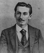 Potrait of Luis T. Romero